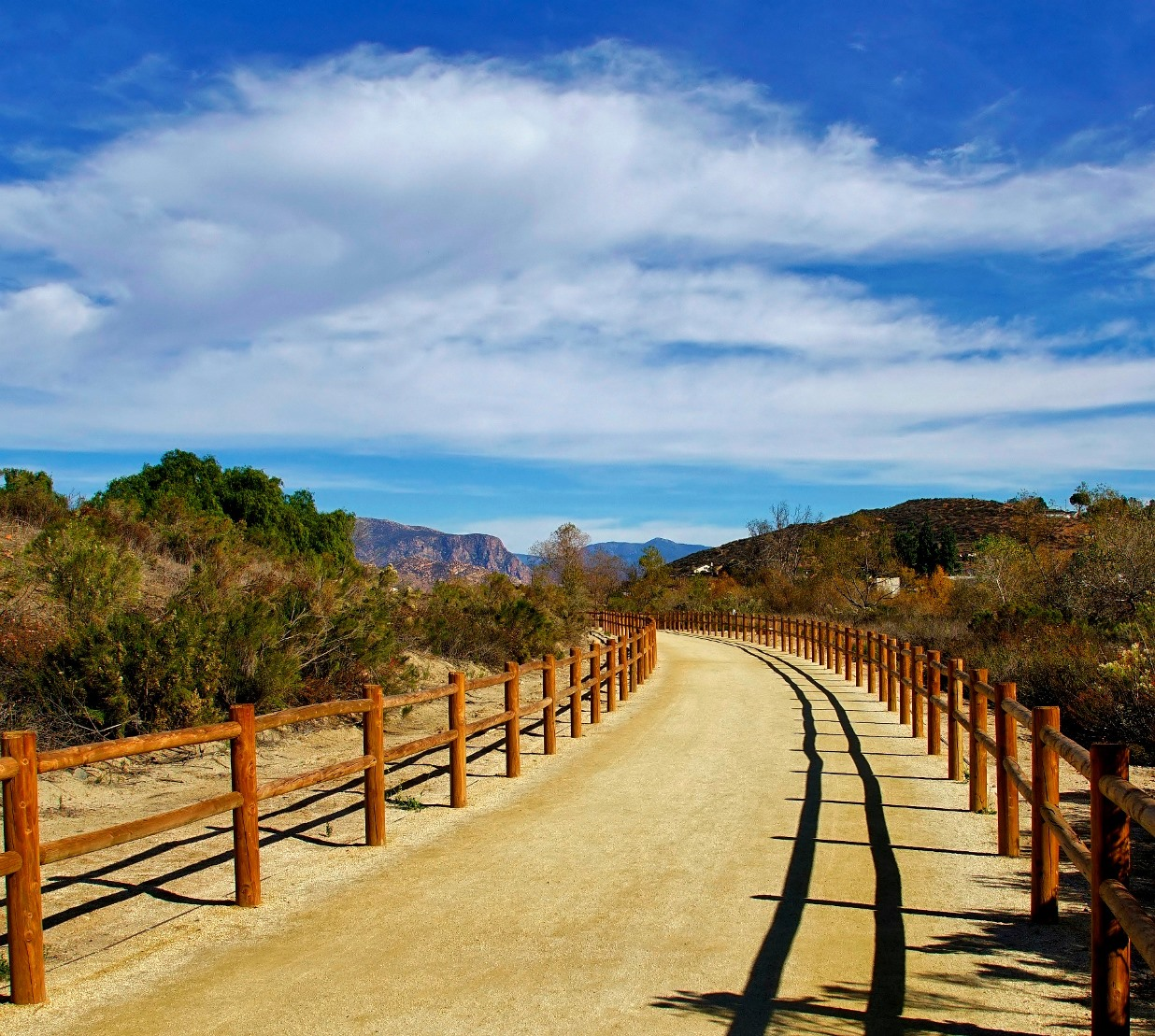 Section of the Walker Preserve Trail in Santee, CA looking to the east